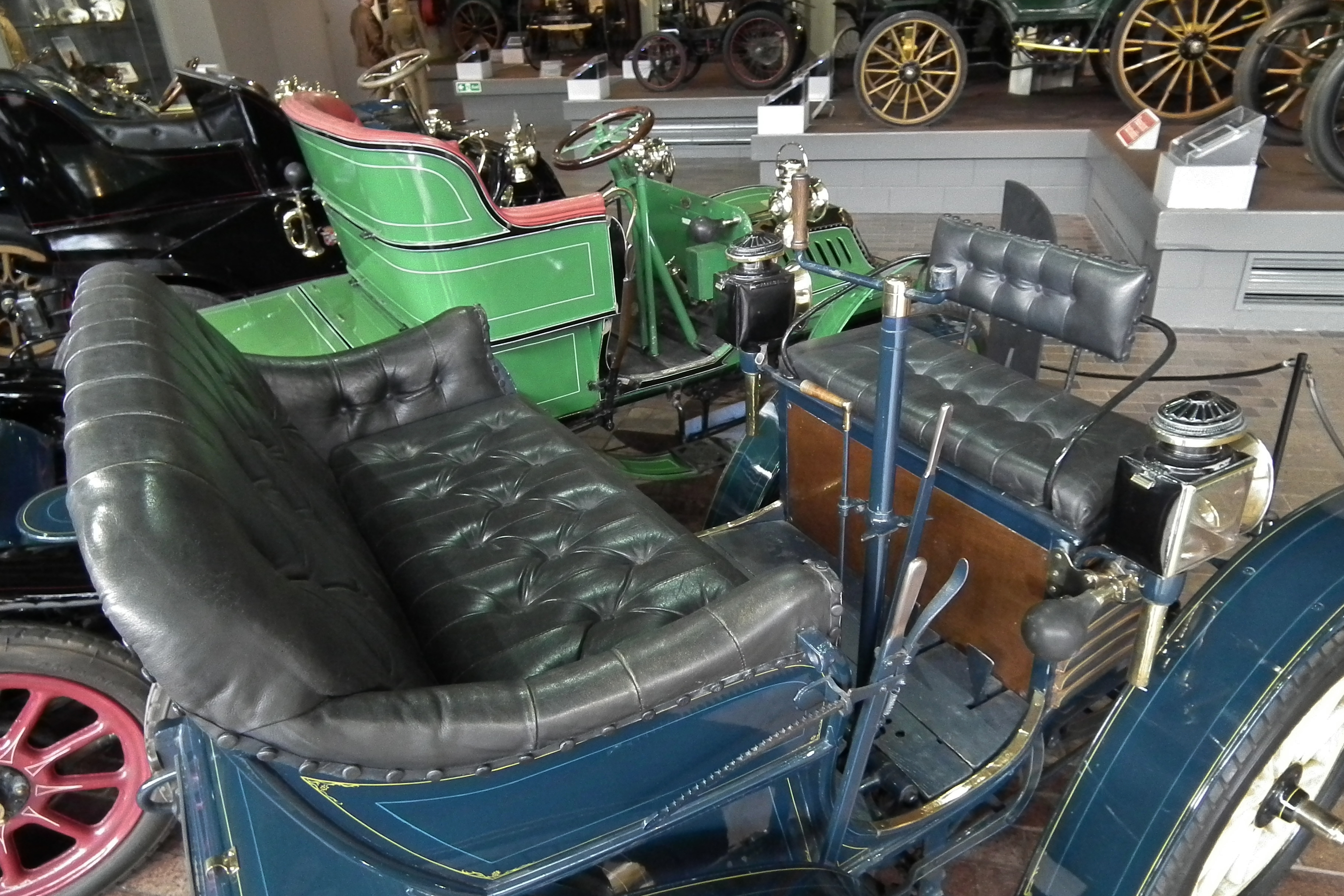 1899 Fiat 3½hp. Taken at the National Motor Museum in Beaulieu, Hampshire, England.